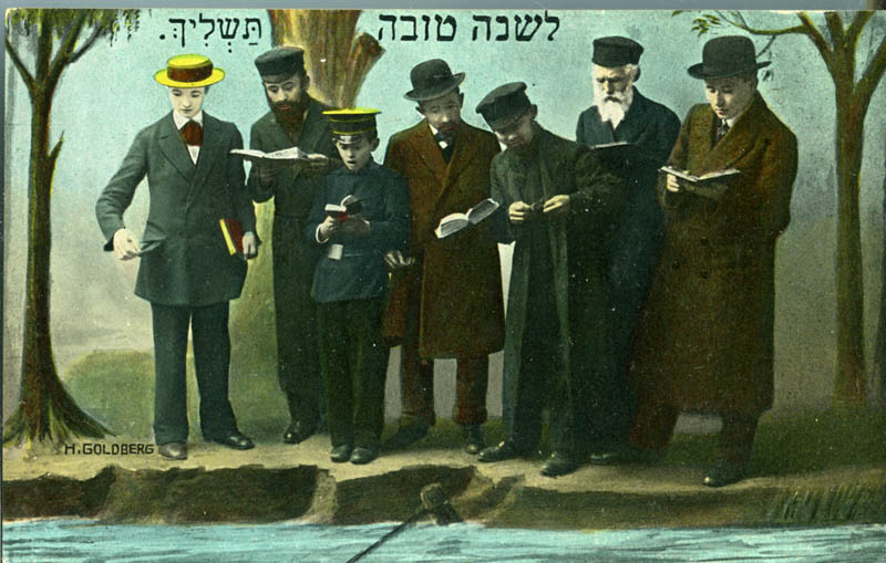 Creator: Velag S. Resnik and Haim Goldberg Date: circa 1920 Object origin: printed in Germany Medium: postcard, paper Repository: Yeshiva University Museum Call Number: 2005.064 Parent Collection: The Deborah and Abraham Karp Collection Rights Information: No known copyright restrictions; may be subject to third party rights. For more copyright information, click here. See more information about this image and others at CJH Museum Collections. This material may be used for personal, research and educational purposes only. Any other use without prior authorization is prohibited. Please contact the Yeshiva University Museum at for further information.